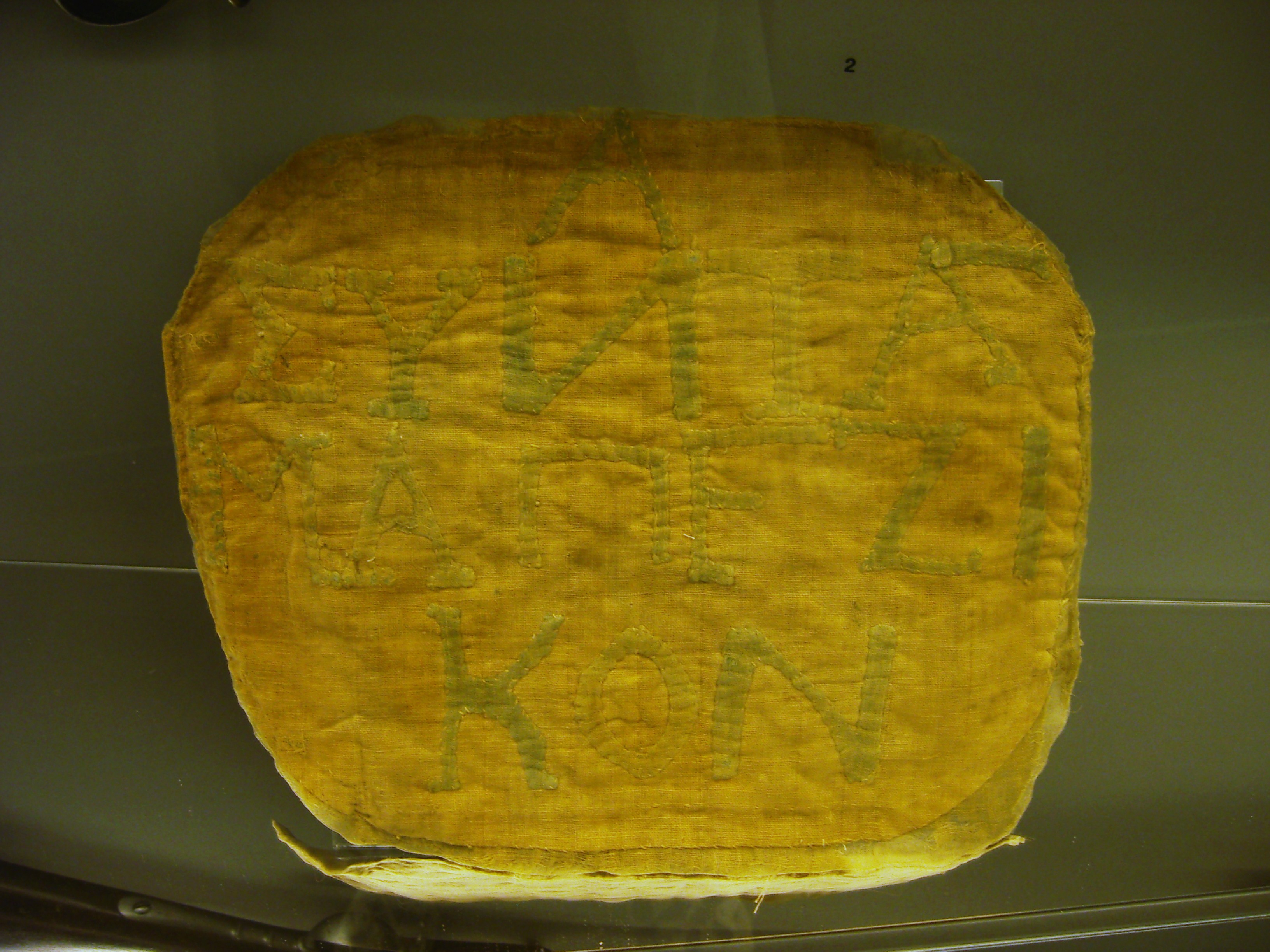 Fragment of the flag of the First Infantry Regiment ("Α ΣΥΝΤΑΓΜΑ ΠΕΖΙΚΟΝ"), the first Greek regular unit created in 1821 by Dimitrios Ypsilantis. (EIM 3654/XIII)